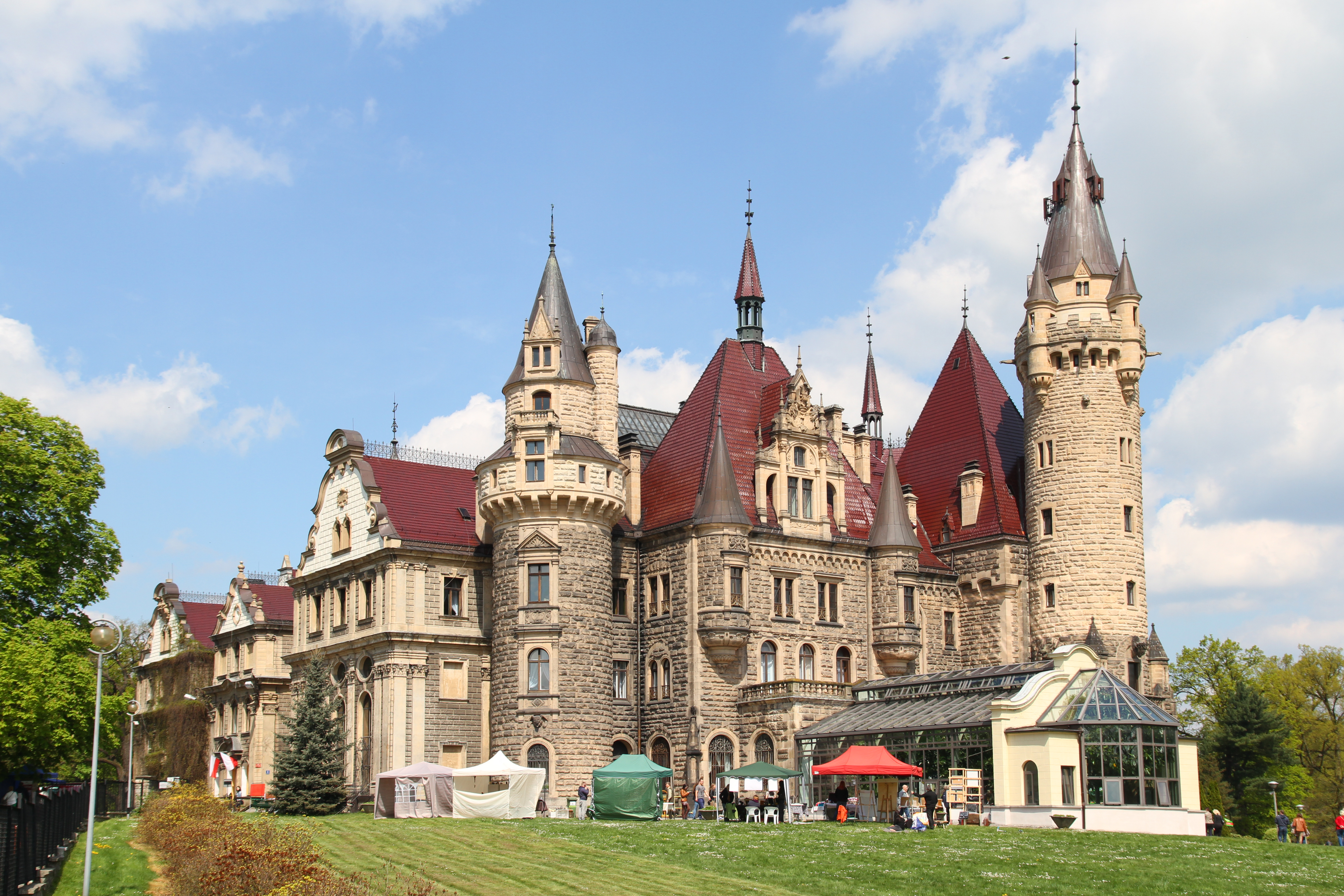 Moszna Castle.